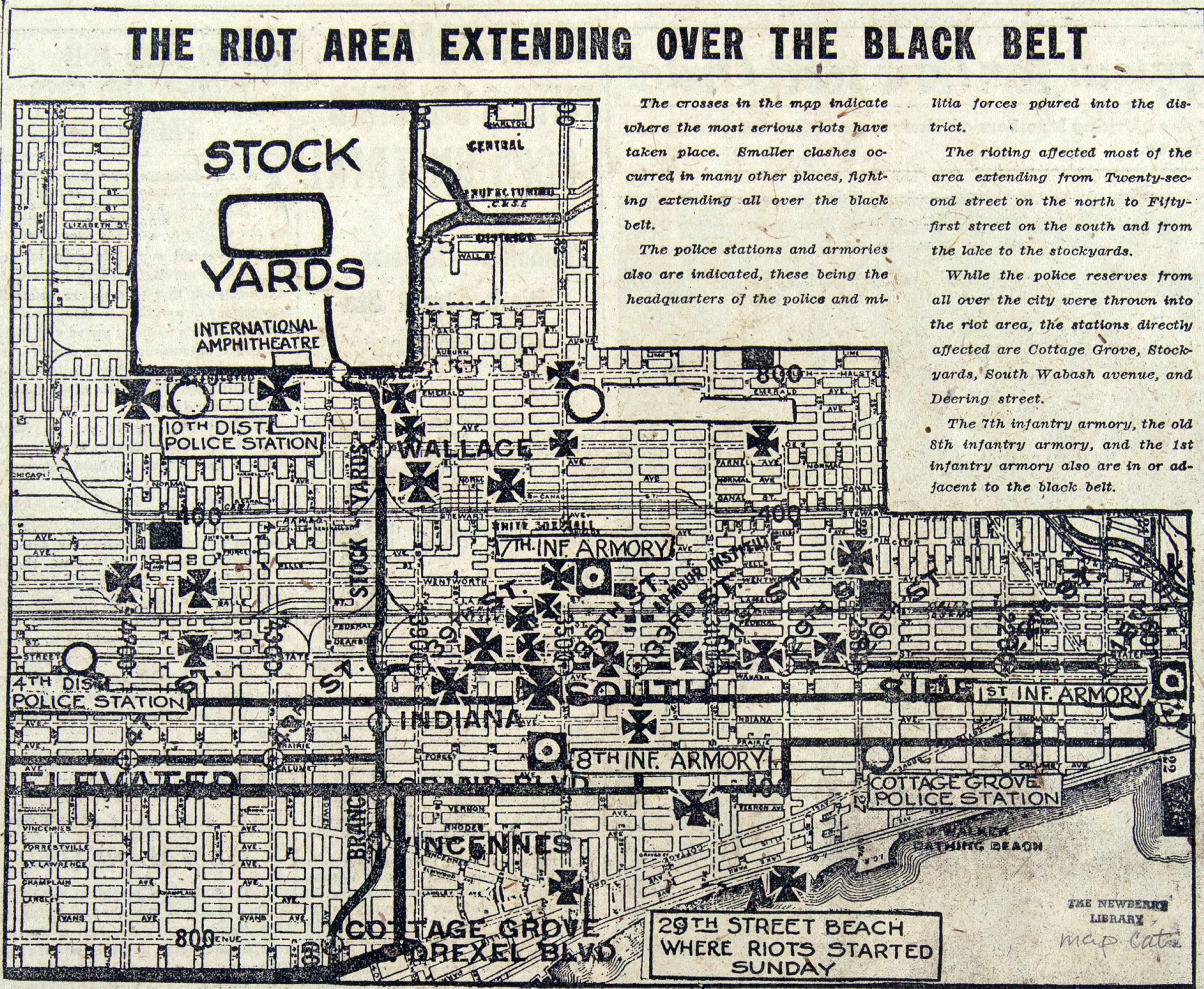 Map of 1919 Chicago Race Riot Hot Spots extending over the Black Belt